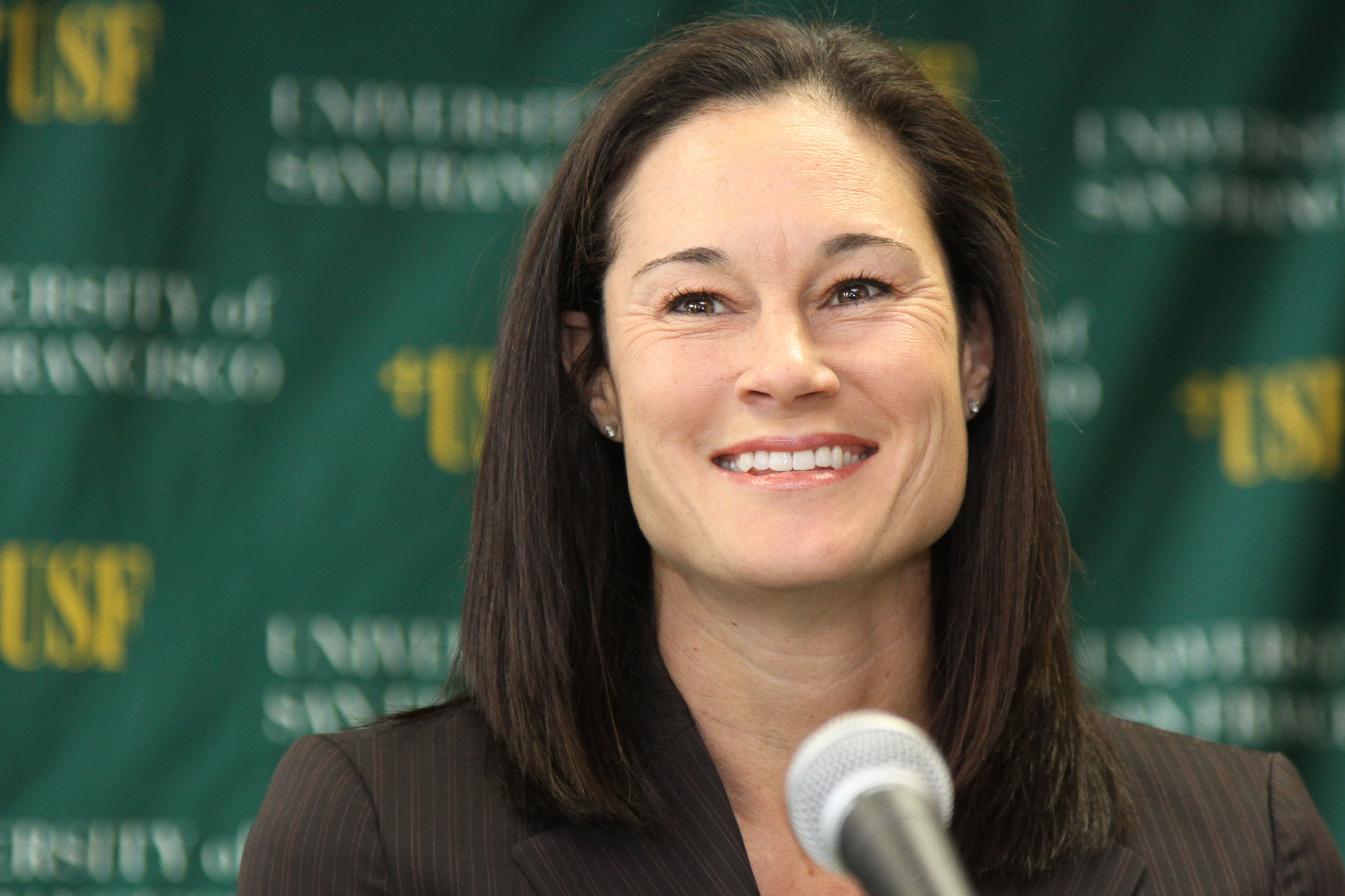 Jennifer Azzi announced as the Head Women's Basketball coach at The University of San Francisco, April 23, 2010.